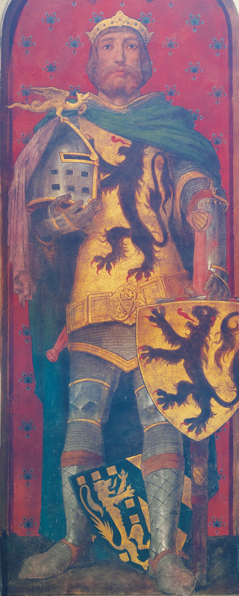 Robert III of Flanders